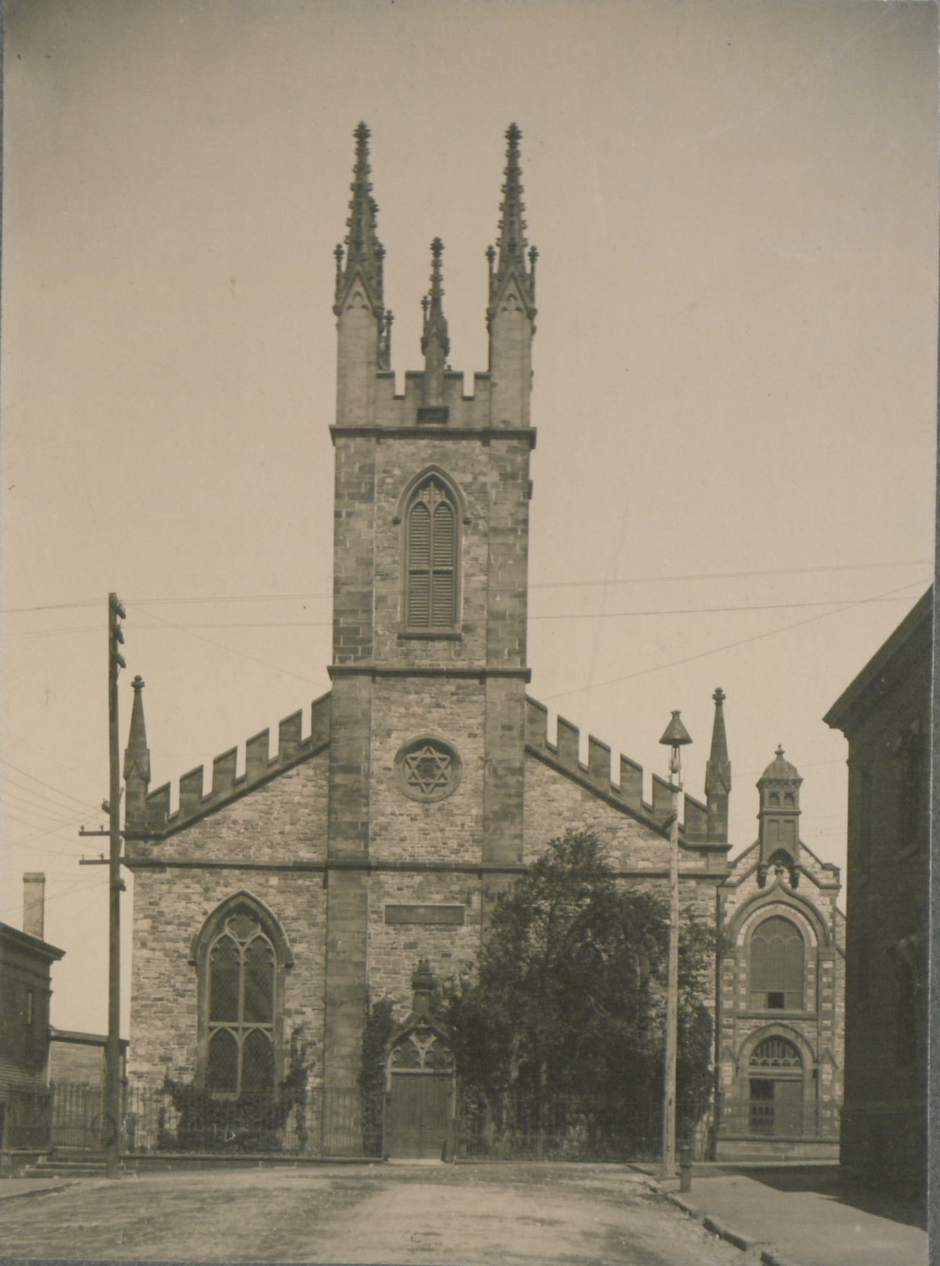 Original caption: “St. John's Episcopal Stone Church on Carleton Stret, built in 1824.”